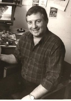 a picture of film editor Dick Allen at Ealing Studios in the 1980s